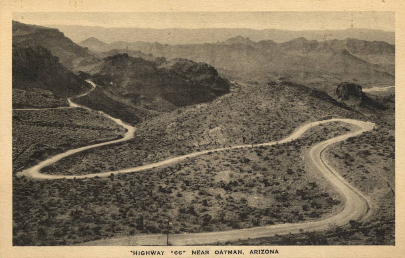 Postcard view of Route 66 winding through the Arizona desert near Oatman.